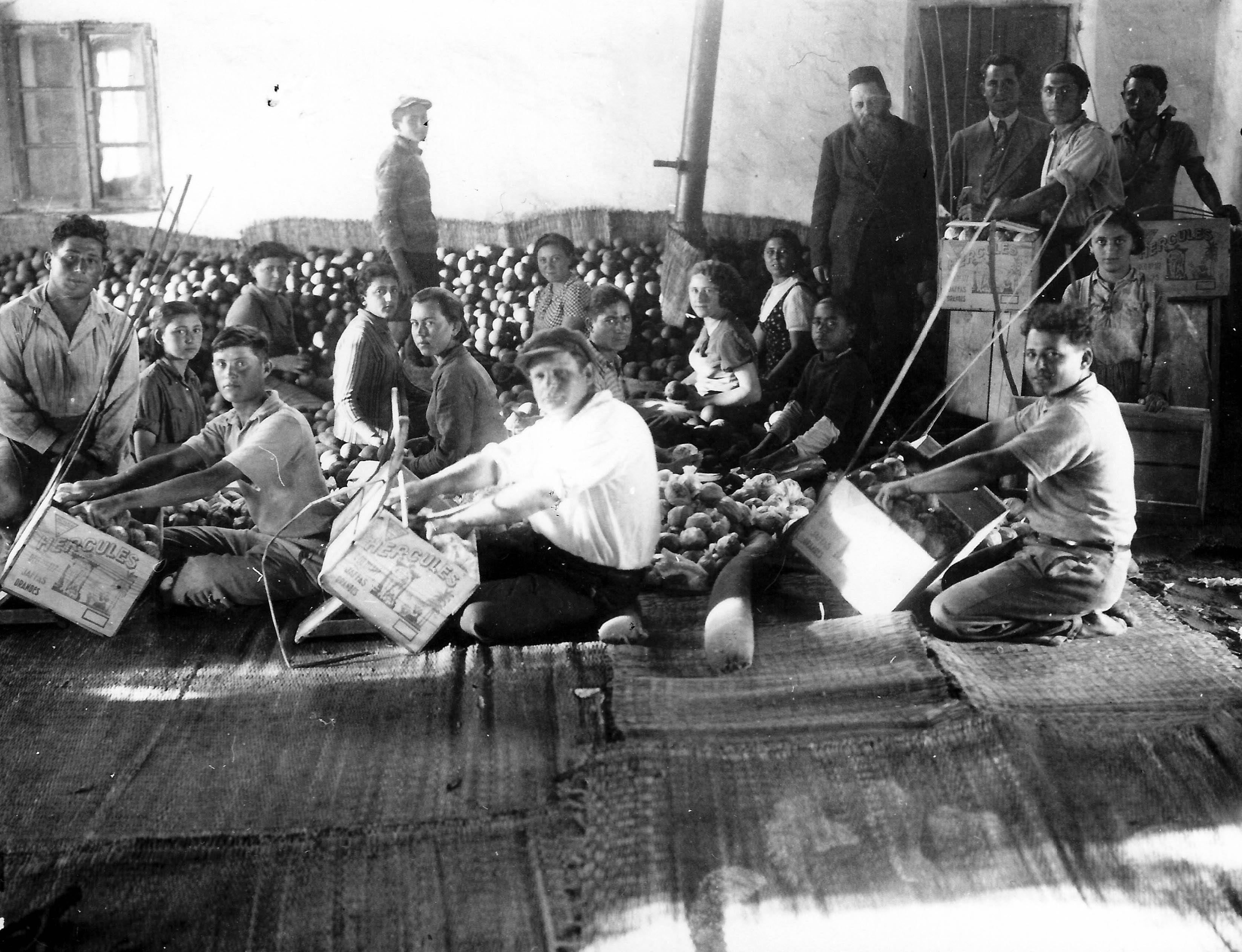 Jewish workers in Petah Tikva in the 1930's